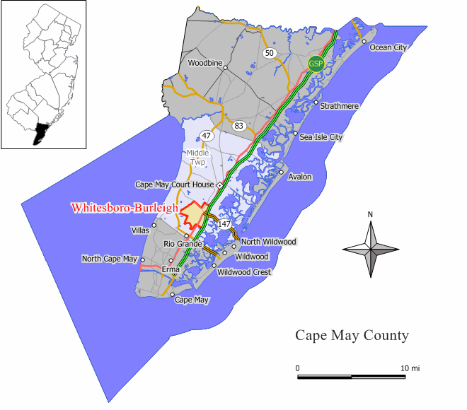 Source: Jim Irwin Original work by Jim Irwin, December 2005.